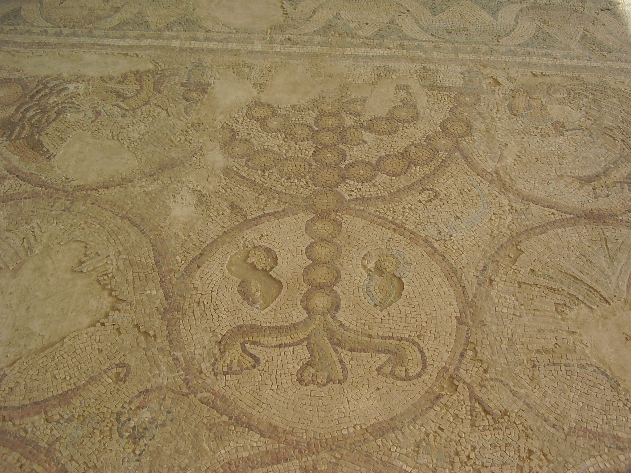 menorah in maon old synagogue mosaic in wastern negev